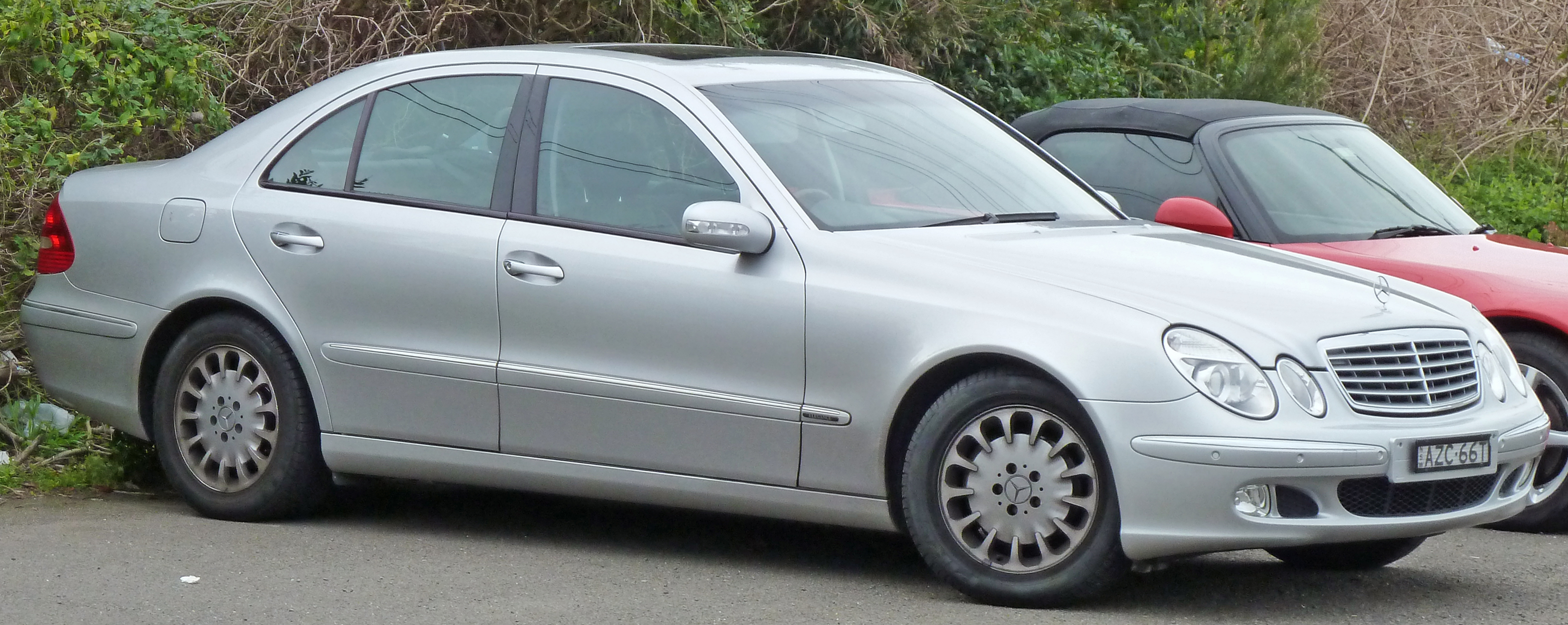 2003 Mercedes-Benz E-Class (W211) Elegance sedan. Photographed in Woolooware, New South Wales, Australia.